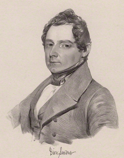 Dionysius Lardner (1793-1859), British scientific writer.